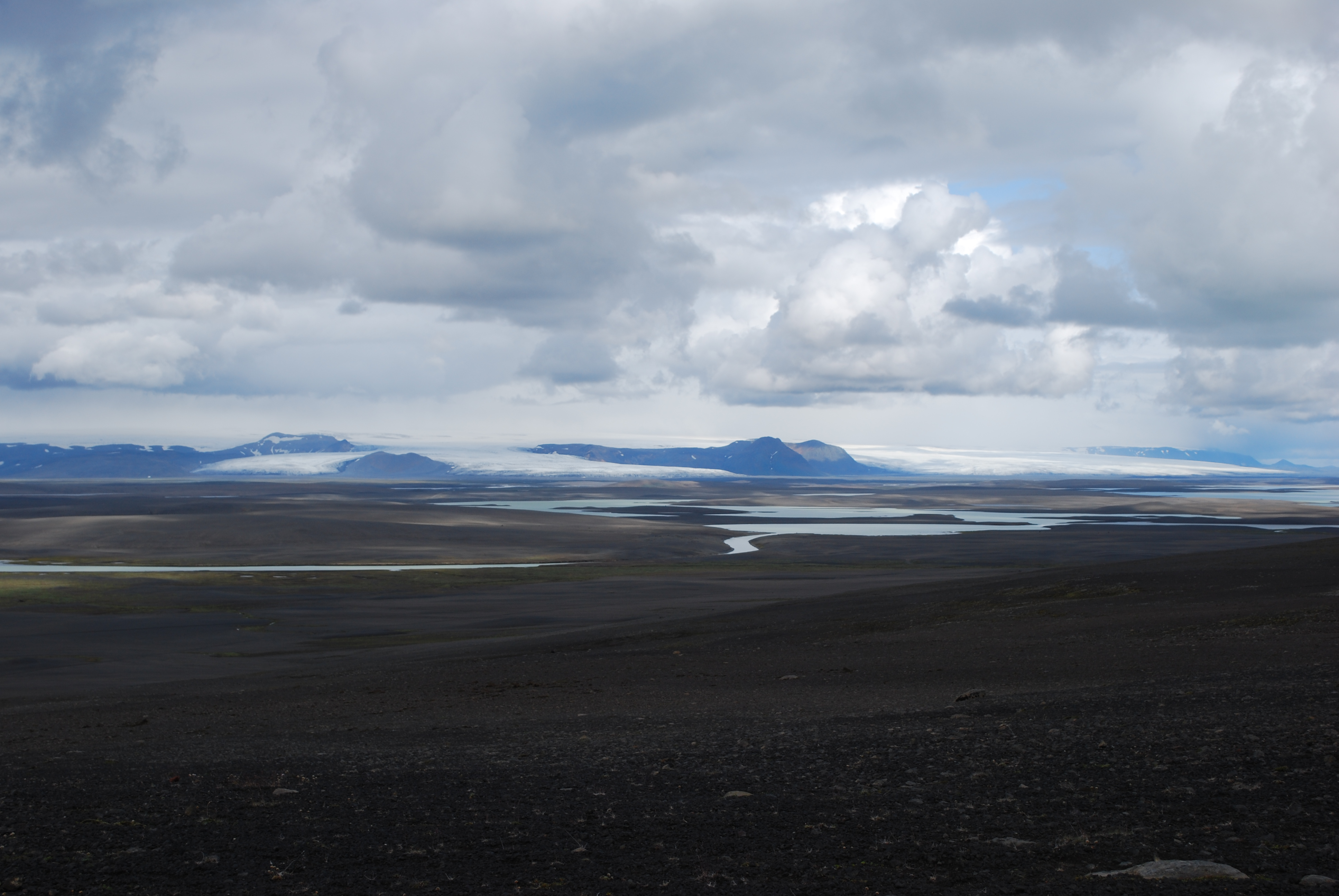 Hofsjökull glacier, Iceland.